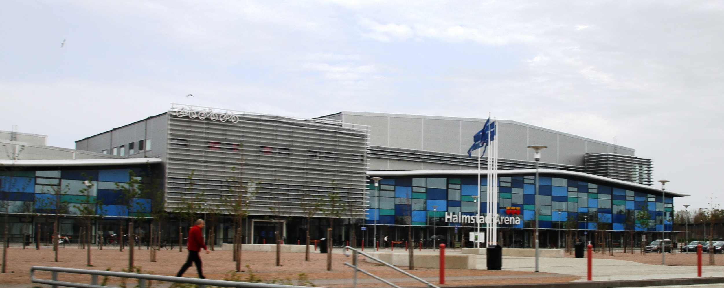 Halmstad Arena, an event arena in eastern Halmstad, western Sweden